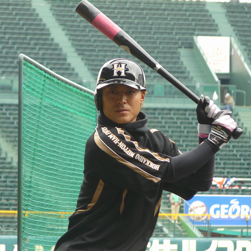 Kensuke Tanaka, infielder of the Hokkaido Nippon-Ham Fighters, at Hanshin Koshien Stadium.